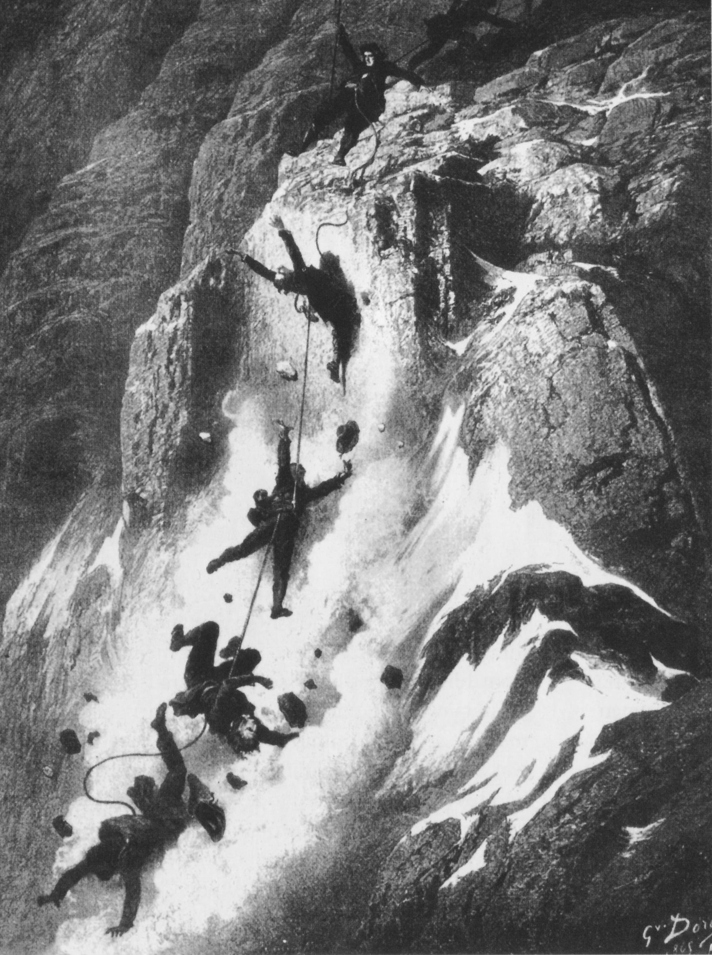 Disaster strikes just after the first ascent of the Matterhorn, drawn by Gustave Doré